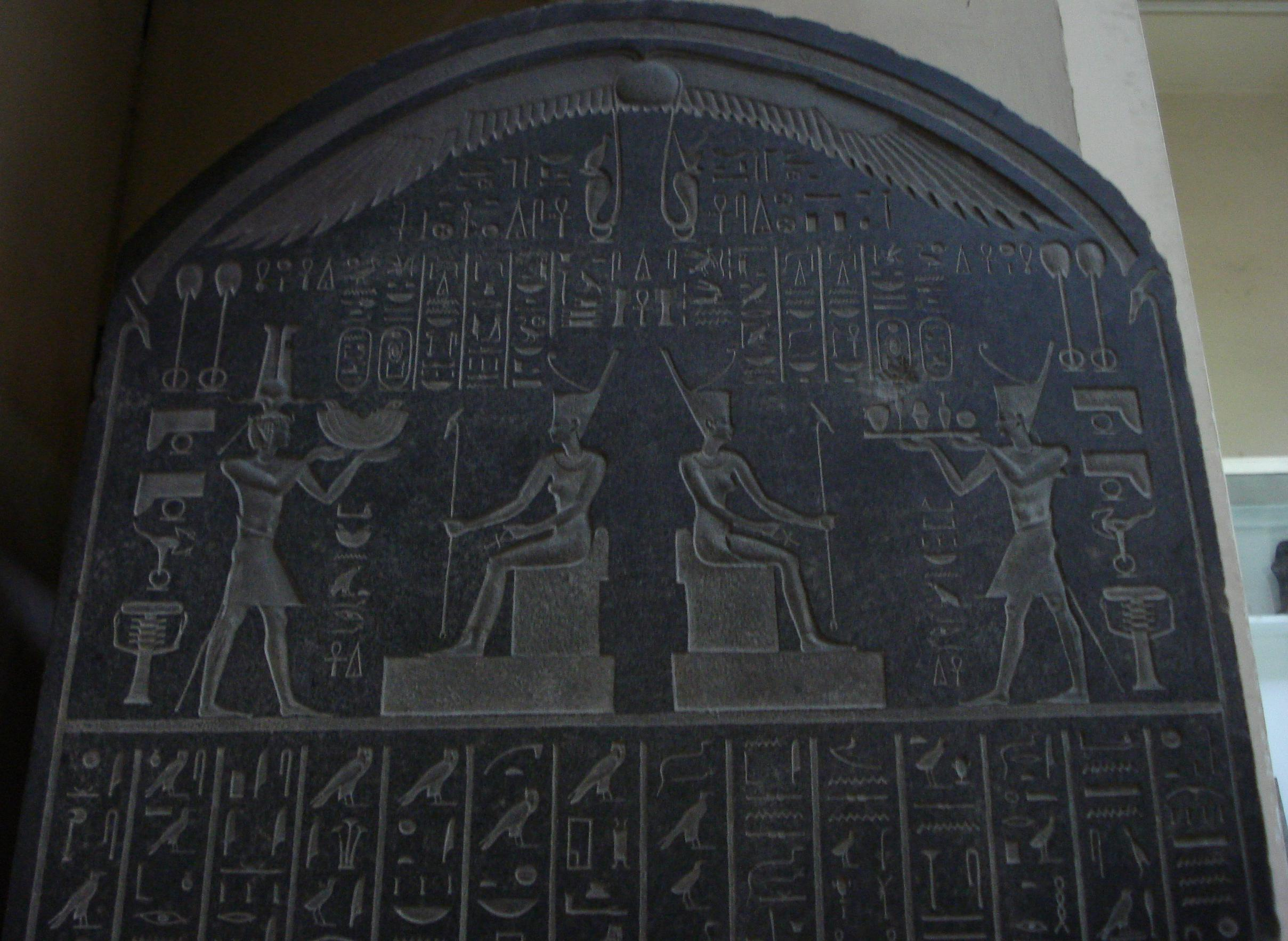 Egyptian Museum